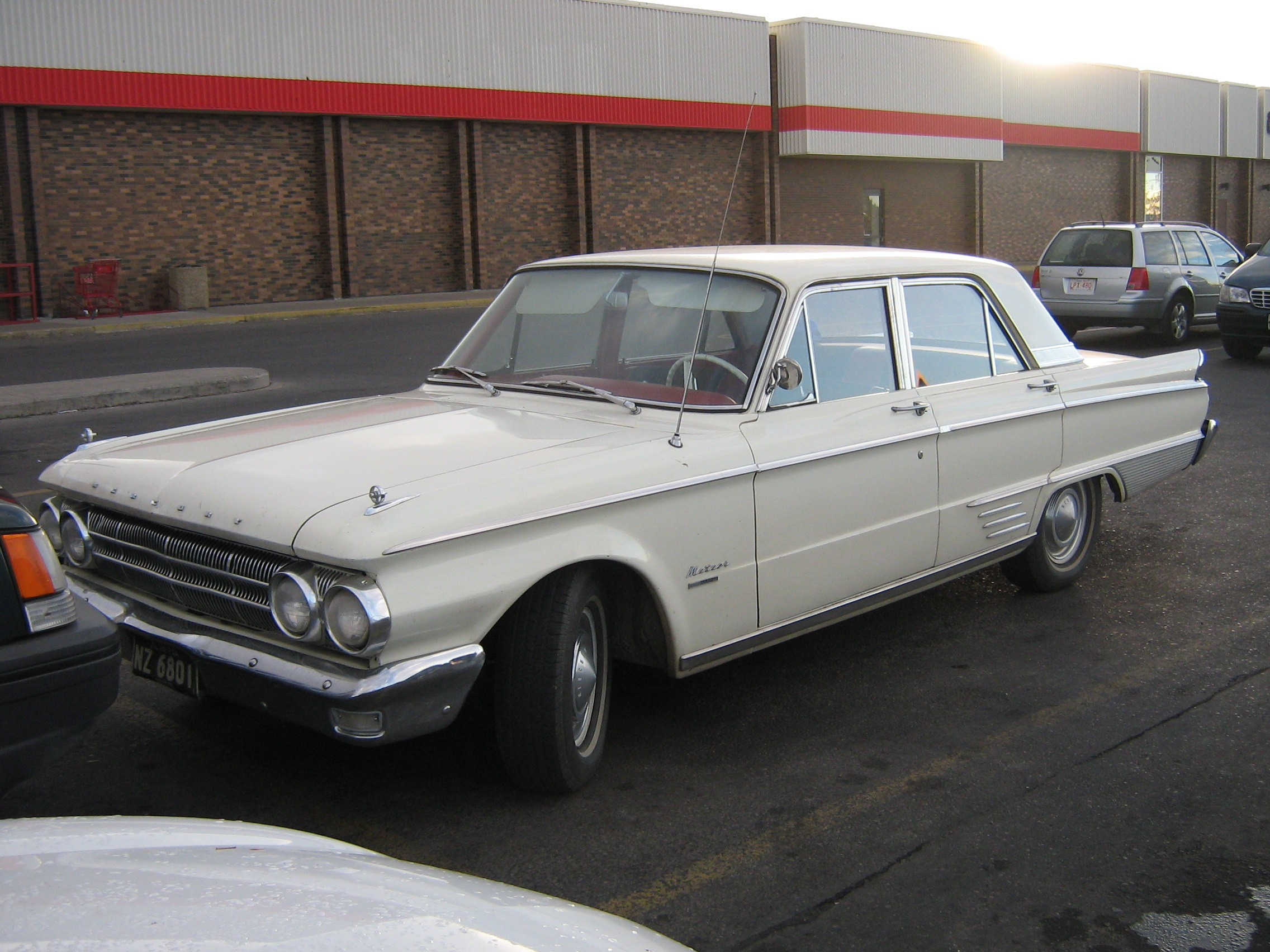 Best I could do with a parking lot photo. Outside the local Canadian Tire. Nice shape.